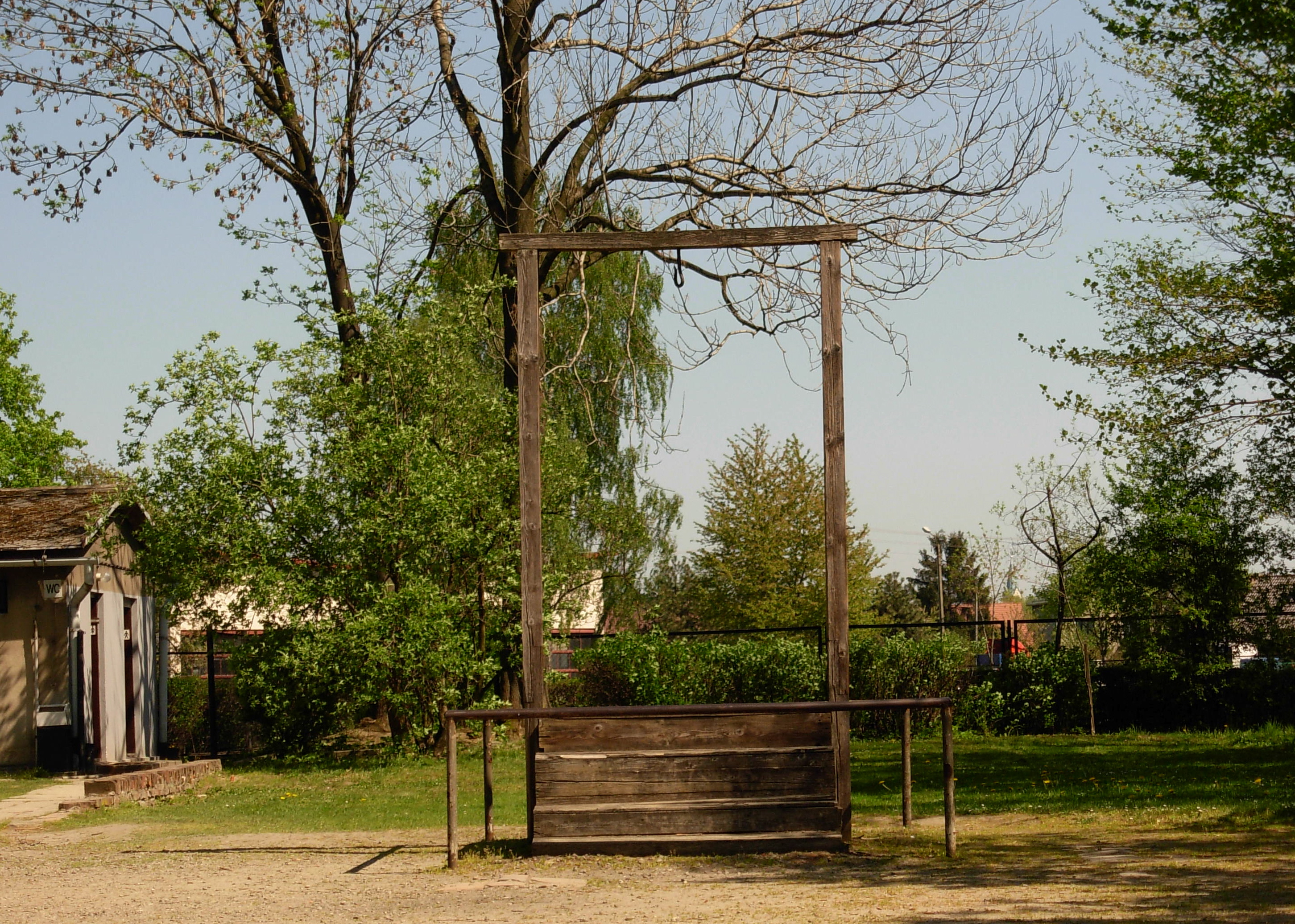 Gallows in Auschwitz concentration camp